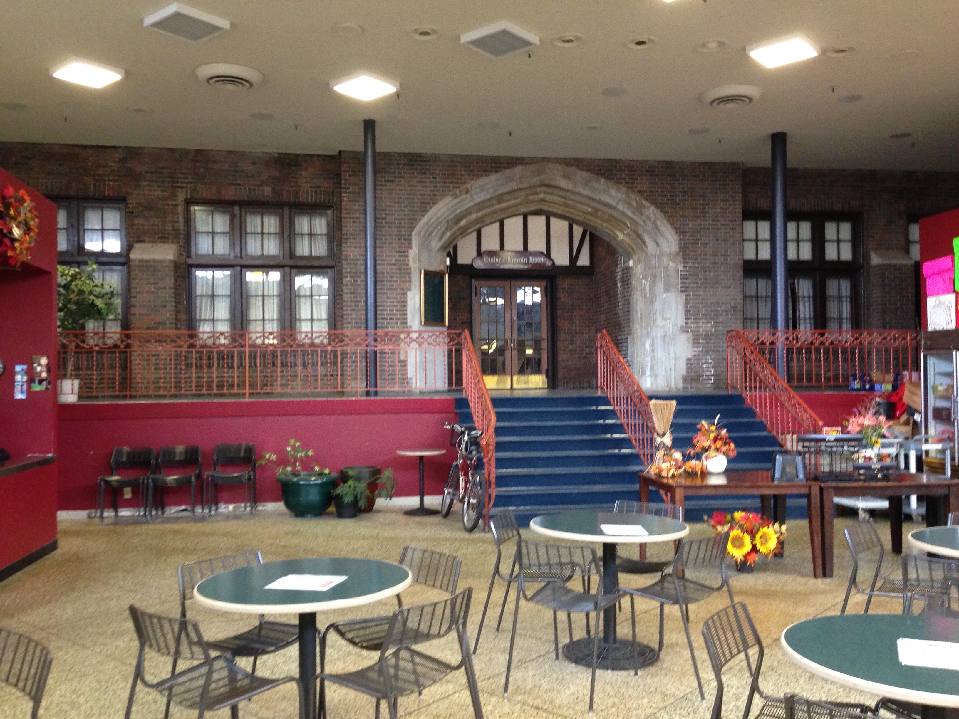 Entrance of Urbana Lankmark Hotel in Lincoln Mall